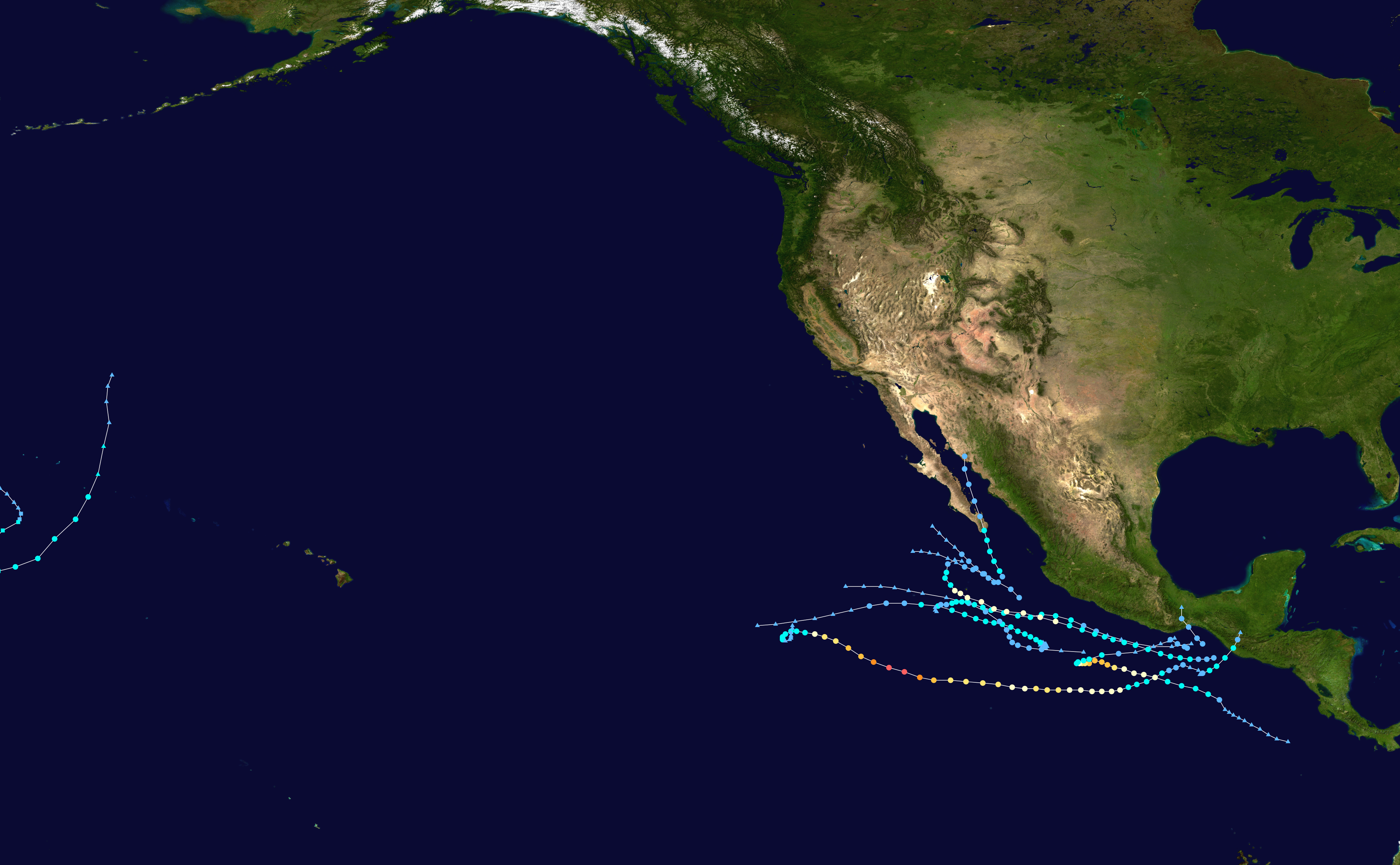 This map shows the tracks of all tropical cyclones in the 2010 Pacific hurricane season. The points show the location of each storm at 6-hour intervals. The colour represents the storm's maximum sustained wind speeds as classified in the Saffir-Simpson Hurricane Scale (see below), and the shape of the data points represent the type of the storm. Saffir–Simpson scale Tropical depression≤38 mph≤62 km/h Category 3111–129 mph178–208 km/h Tropical storm39–73 mph63–118 km/h Category 4130–156 mph209–251 km/h Category 174–95 mph119–153 km/h Category 5≥157 mph≥252 km/h Category 296–110 mph154–177 km/h Unknown Storm type Tropical cyclone Subtropical cyclone Extratropical cyclone / Remnant low / Tropical disturbance / Monsoon depression